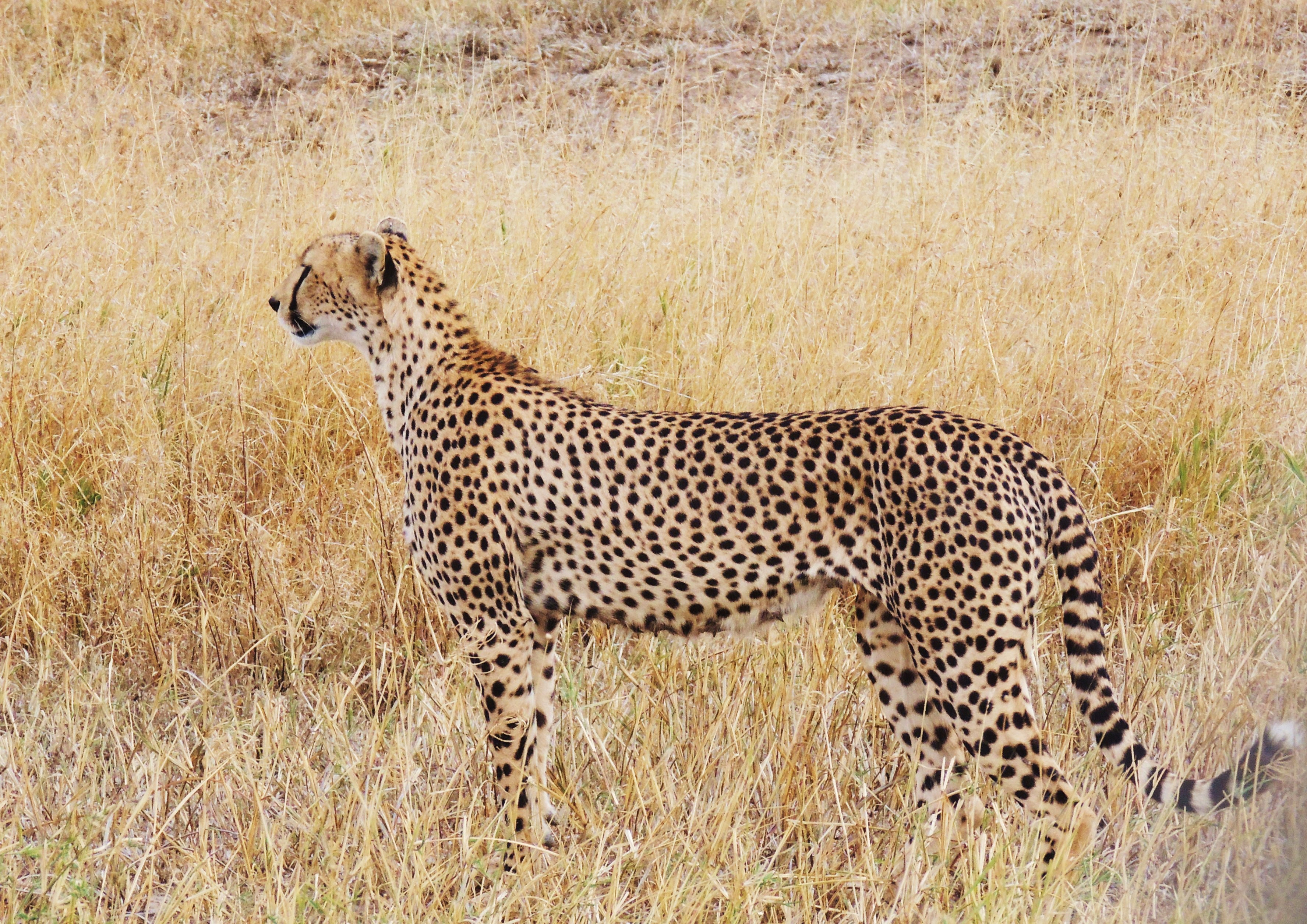 Acinonyx jubatus - female cheetah